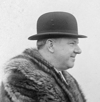 W.C. Fields